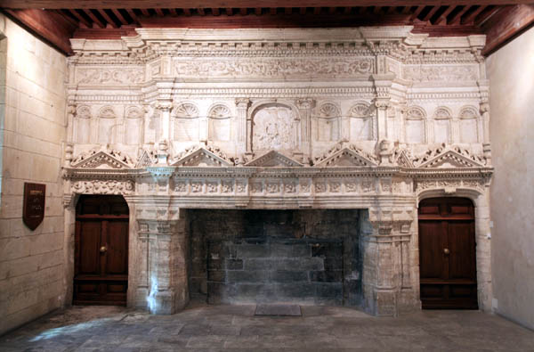 The casttle of Gordes, Vaucluse, France